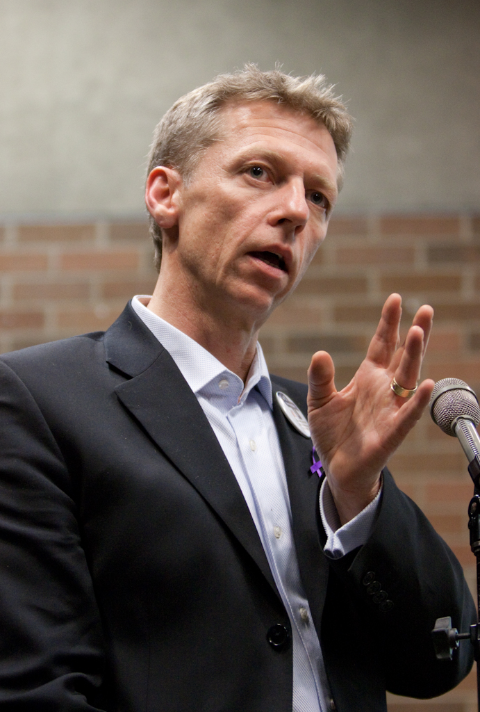 Doctor James Orbinski speaking at a conference at York University centered on the Rwandan Genocides of 1994.